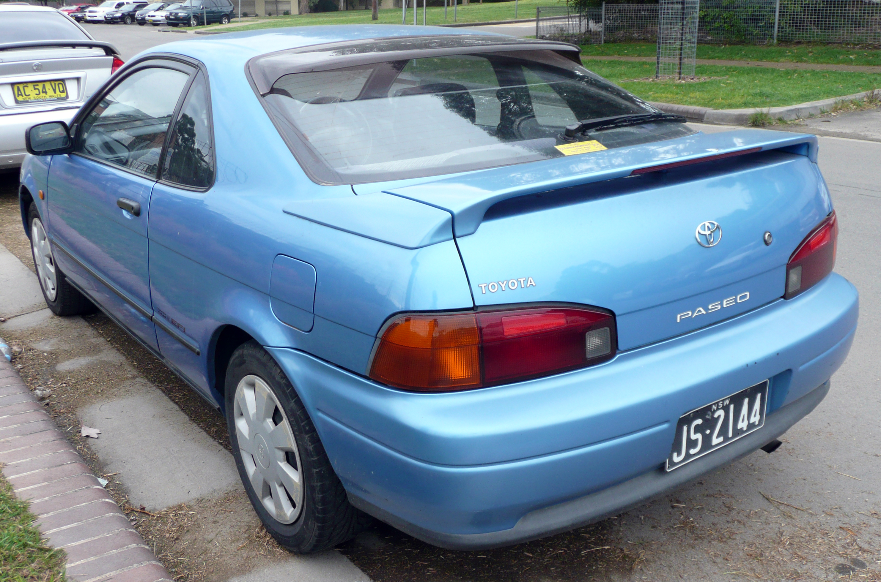 1991–1995 Toyota Paseo (EL44) coupe. Photographed in Sutherland, New South Wales, Australia.